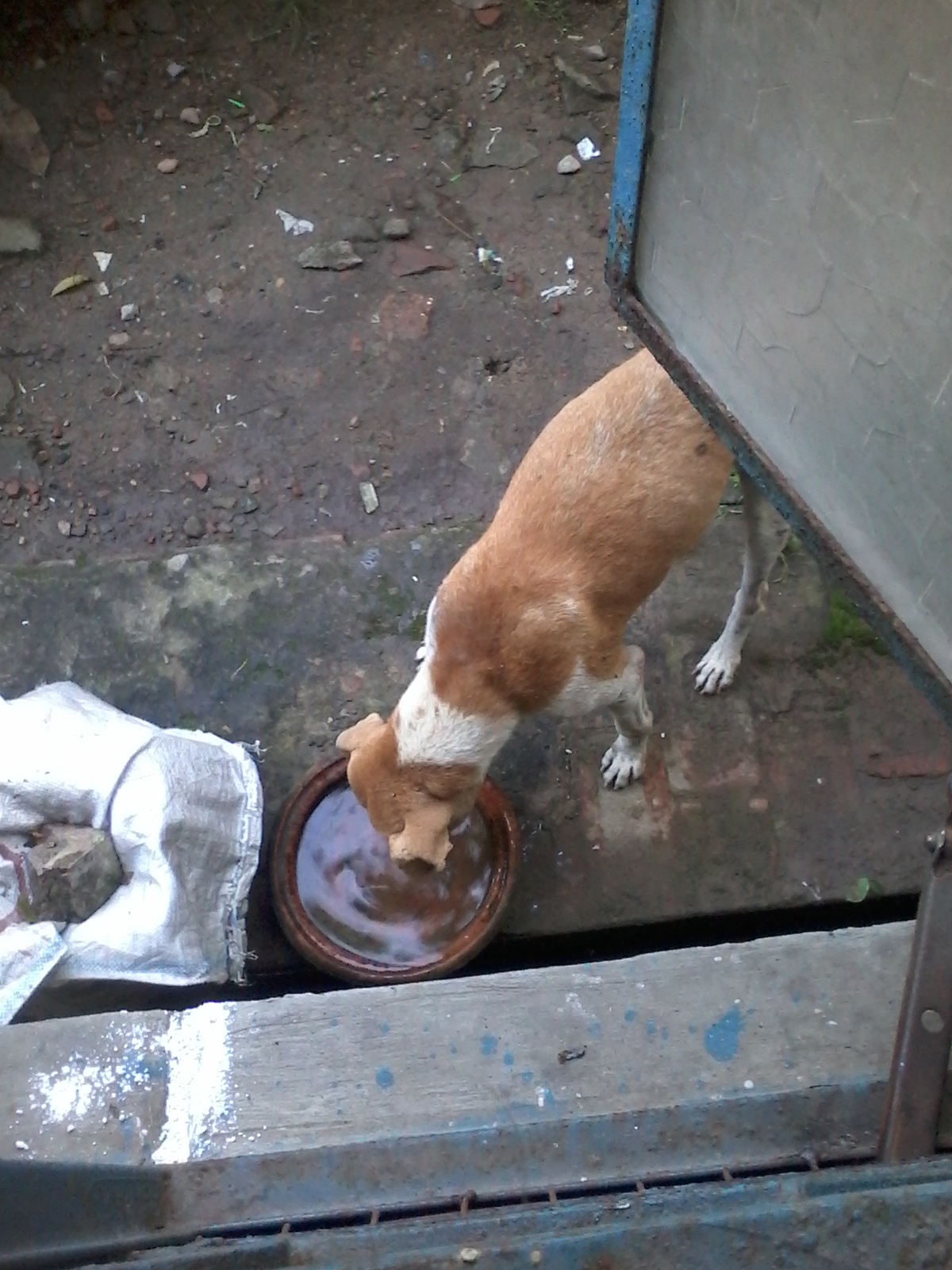 Man cares